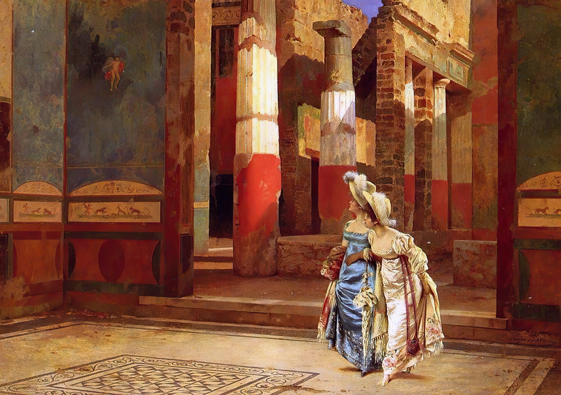 A visit to Pompeii by Luigi Bazzani, before 1927